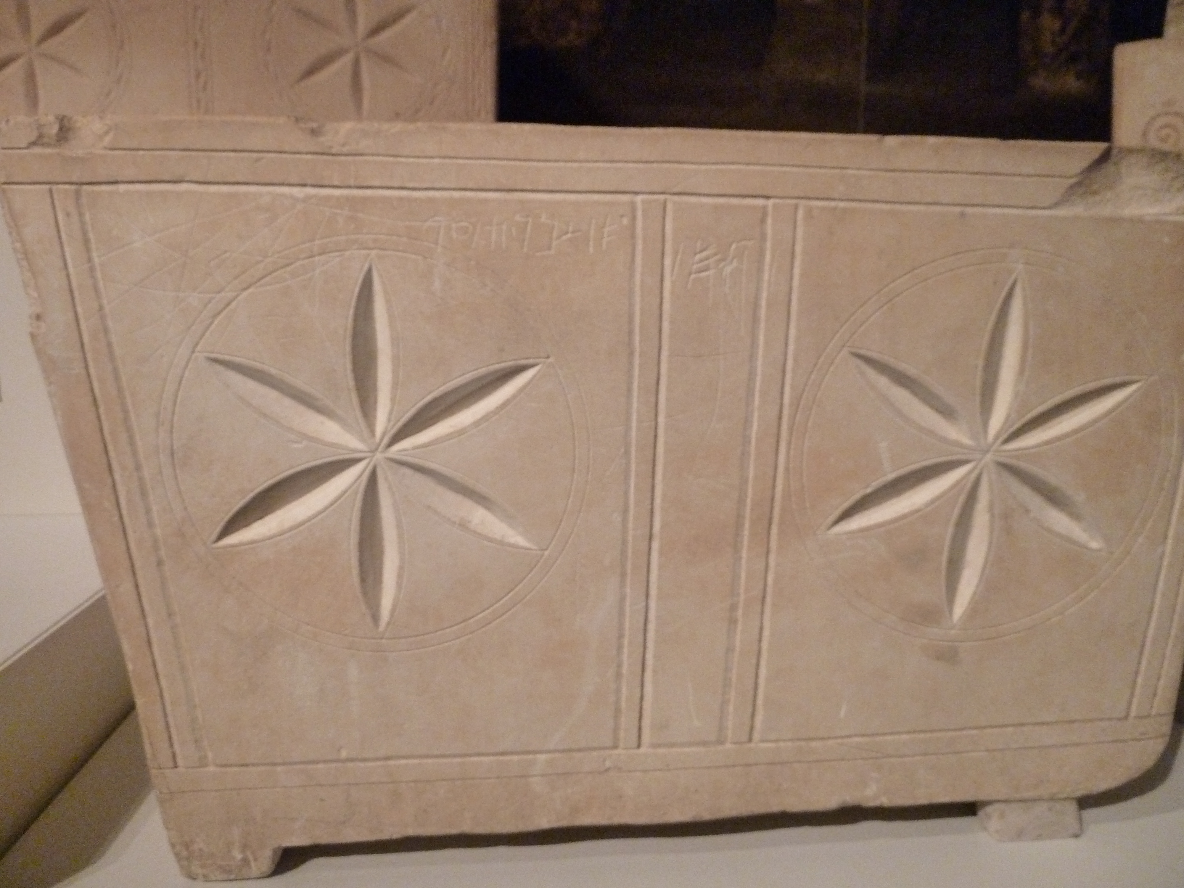 Ossuary of "Jesus son of Joseph", found in Talpiyot in Jerusalem, Ossuary from the 1st Century. The Israel Museum, jerusalem